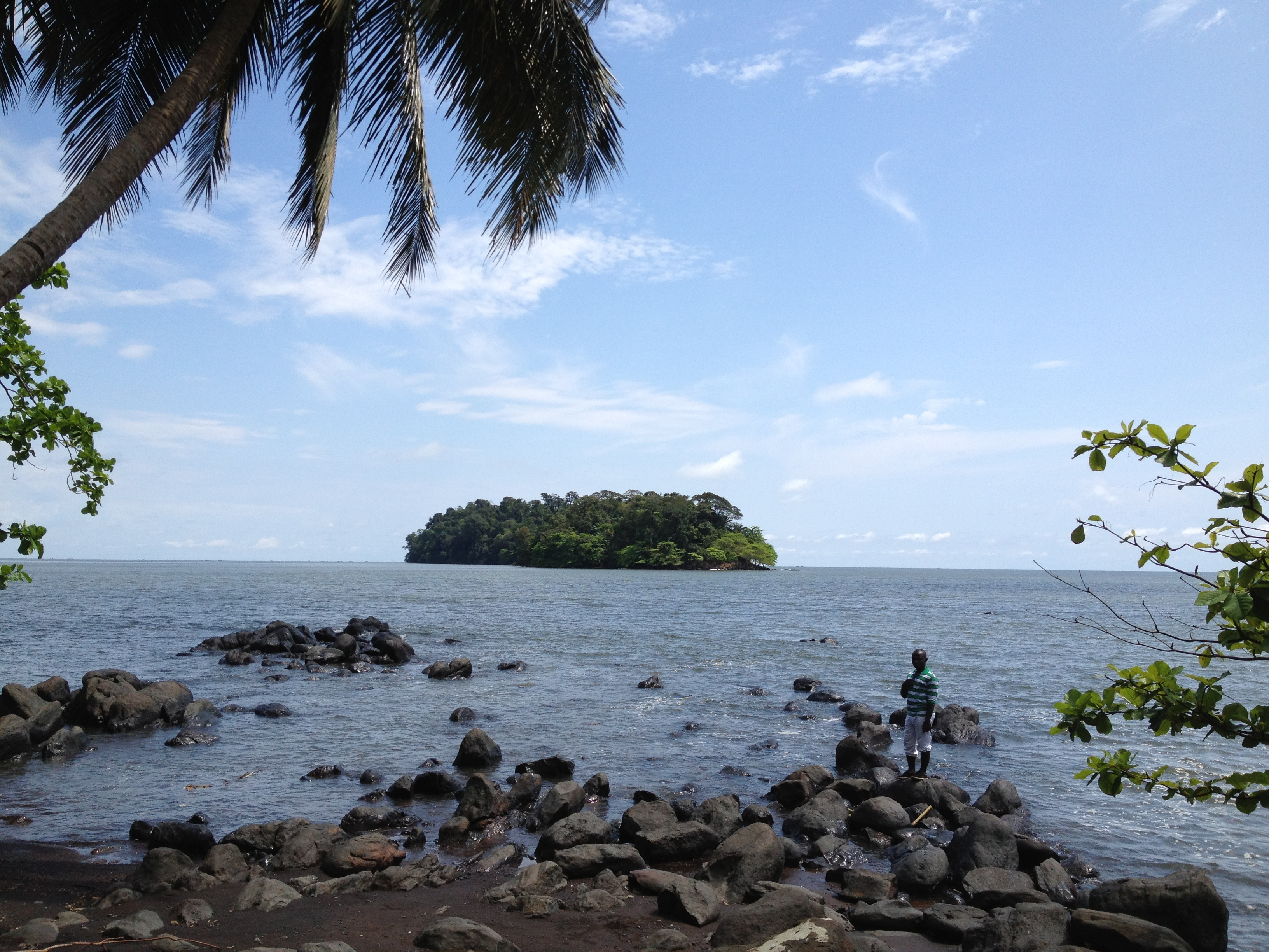 Bimbia Slave Post (Cameroon).